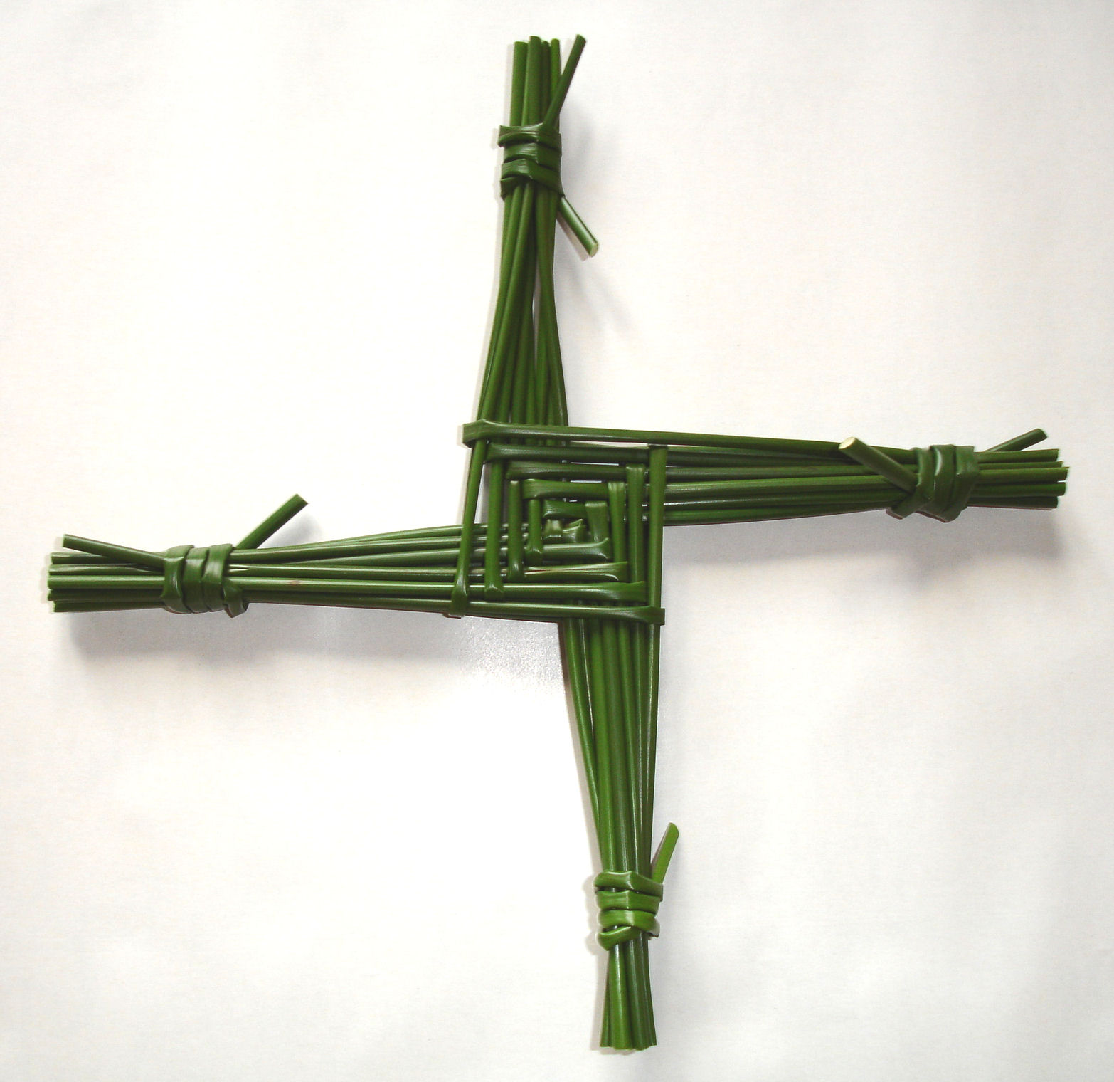 Saint Brigid's cross, made from rushes from County Down. Sony P-200 and Jasc Paint Shop Pro 9